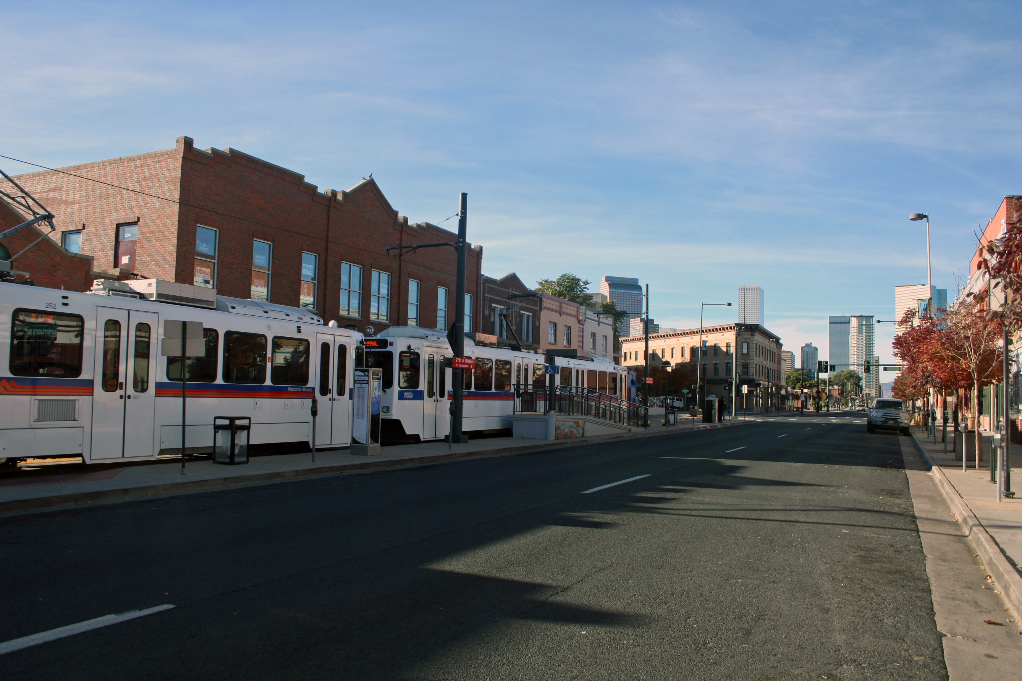 The light rail station at 27th and Welton streets in Five Points, Denver, Colorado, USA.